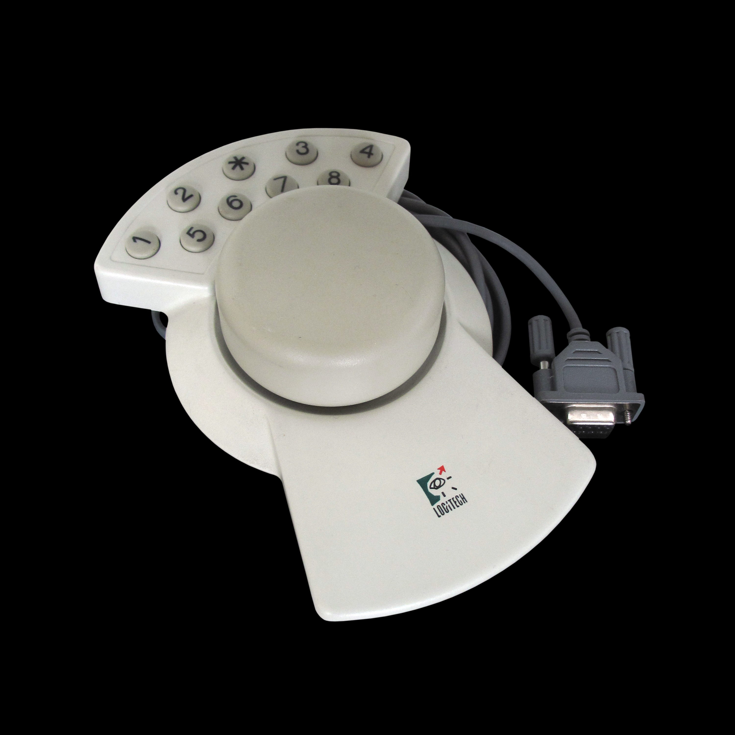 Logitech Spacemouse 3D mouse. On display at the Musée Bolo, EPFL, Lausanne.